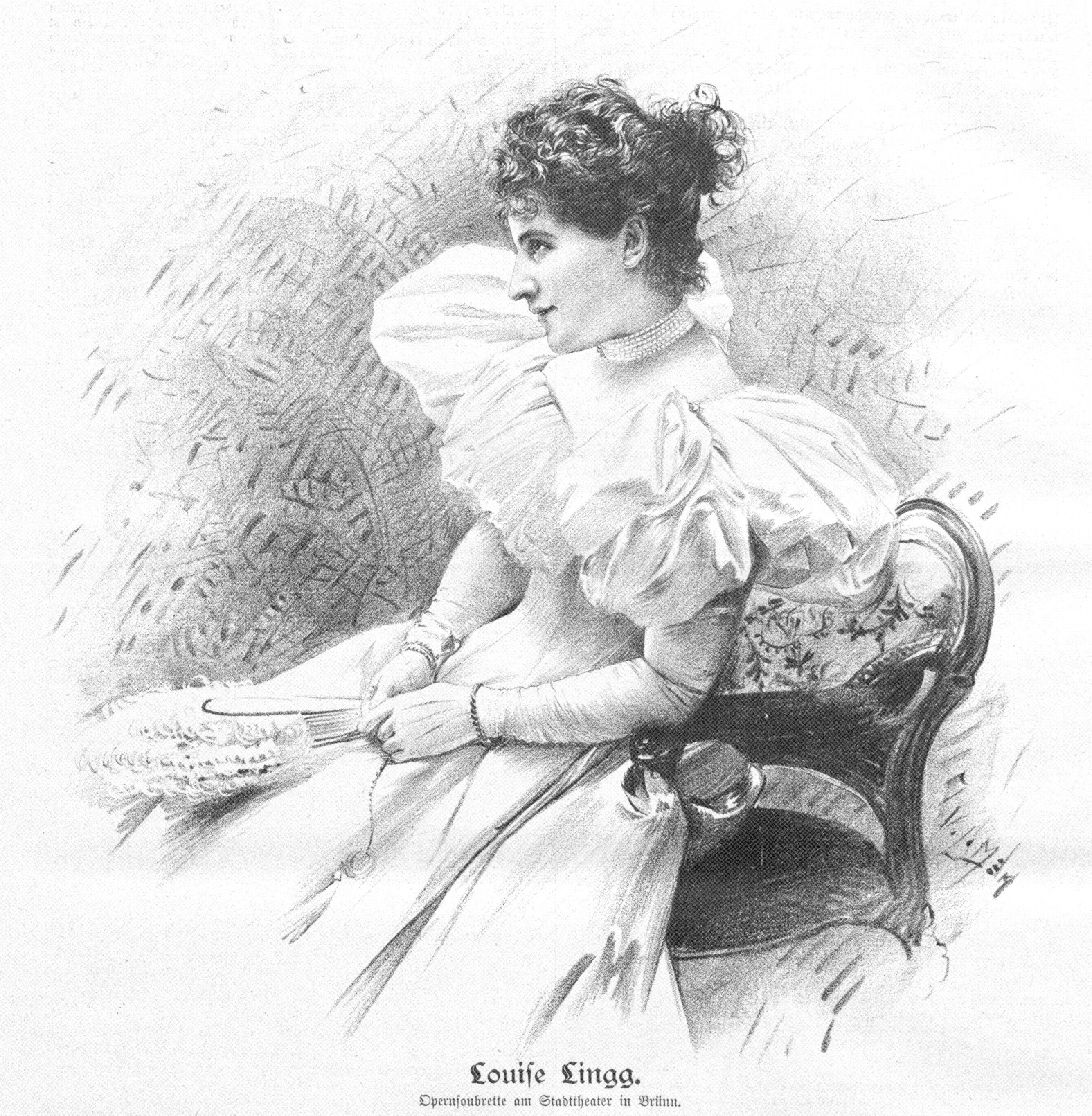 Portrait of Louise Lingg (more famous as Luise del Zopp, *1871 † after 1951), Austrian actress and singer.